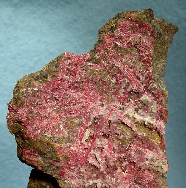 Cinnabar Locality: Almaden mine, Santa Clara County, California, USA (Locality at ) Size: 8.0 x 4.9 x 3.7 cm. Lustrous, radiating, acicular, red cinnabar crystals richly cover the vertical matrix on this excellent specimen from the famous Almaden Mine of California. The crystals reach 1.3 cm, which is large for the mine. Choice, old material from this well-known locality.